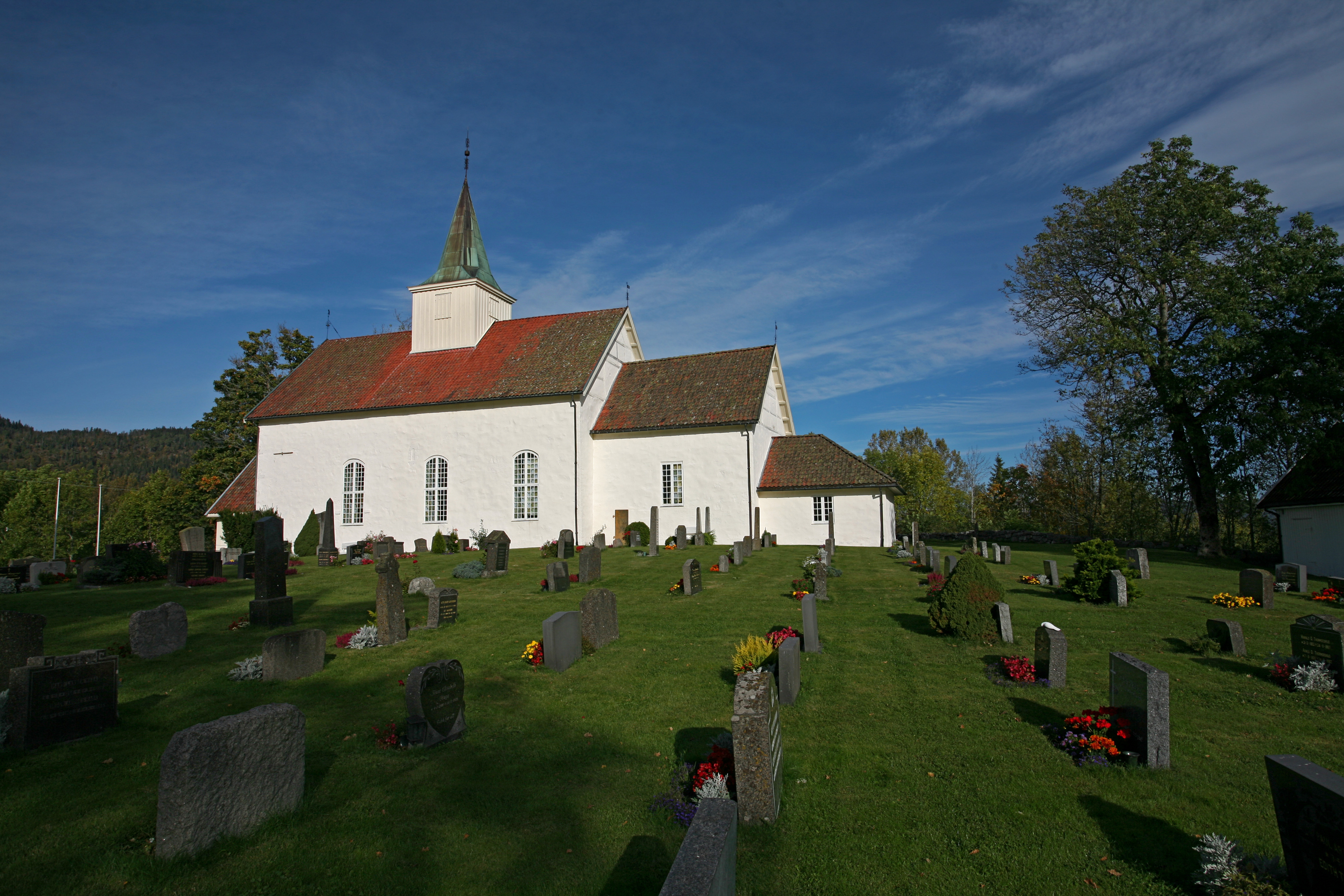 Picture of Hof kirke (Vestfold - Norway)